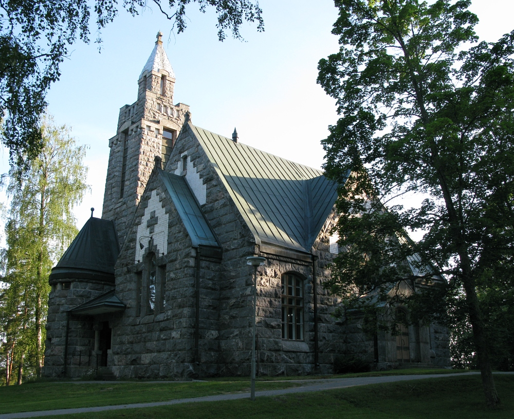 The Church of Karuna, in Sauvo, Finland. Designed in the Nordic Medieval-Gothic revival National Romantic style by Finnish architect Josef Stenbäck. Made of stones, and built in 1908-1910.